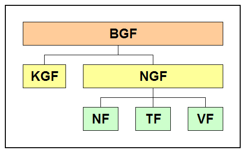 Key: BGF (Brutto-Grundfläche) - Gross floor area NGF (Netto-Grundfläche) - net usable floor area KGF (Konstruktions-Grundfläche) - construction floor area NF (Nutzfläche) - useable floor space TF (Technischen Funktionsfläche) - space needed for plant and utilities VF (Verkehrsfläche) - space needed for linking and access